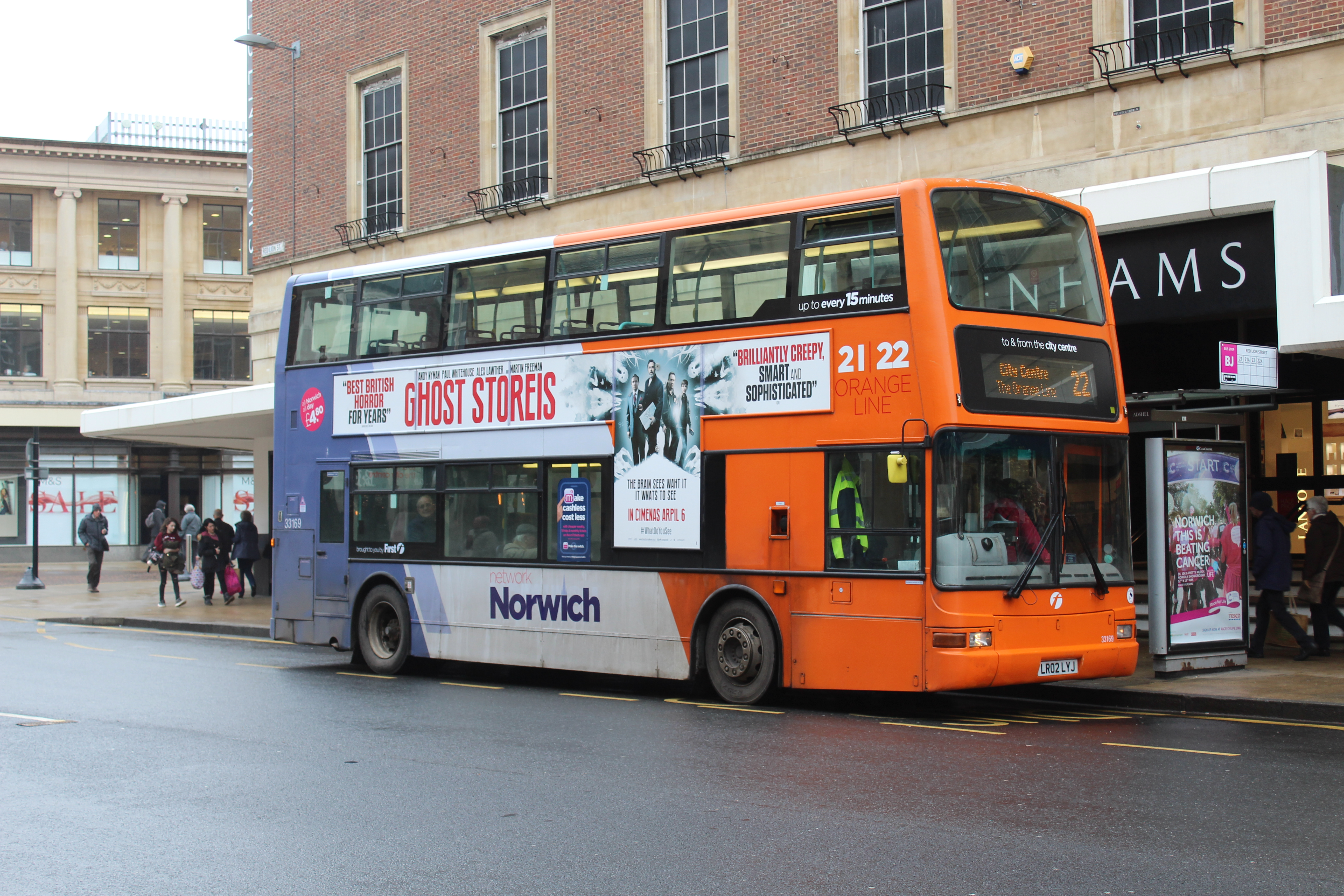 A Dennis Trident/Plaxton President carrying Network Norwich Orange Line branding in Norwich, Norfolk